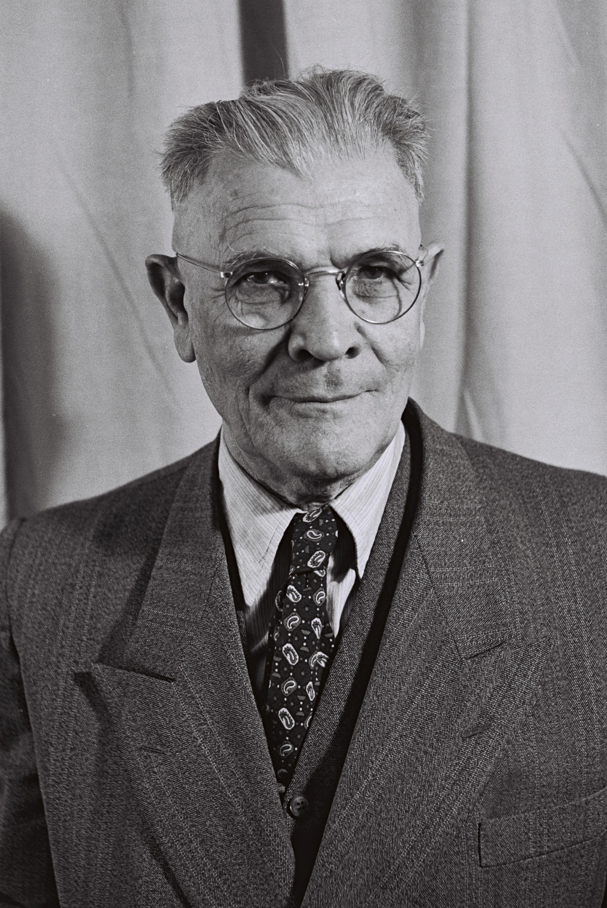 Portrait of Chaim Boger (Bugrashov), zionist actvist, Knesset member and founder of the Herzliya Hebrew High School in Tel-Aviv